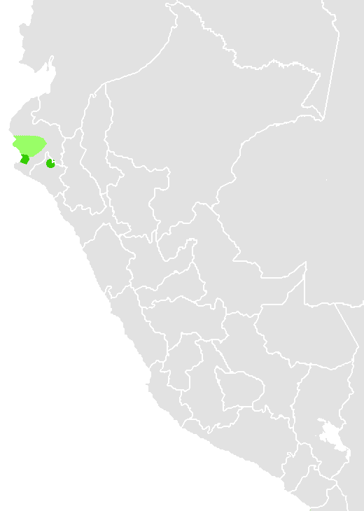 Tallan languages [Catacaos, Colán] in pale green and Sechuran languages [Sechura, Olmos] in dark green. Source: Adelaar & Muysken (2004): The Languages of the Andes. Cambridge: Cambridge University Press, pp. 395-405. ISBN 0-521-36275-X., p. 166